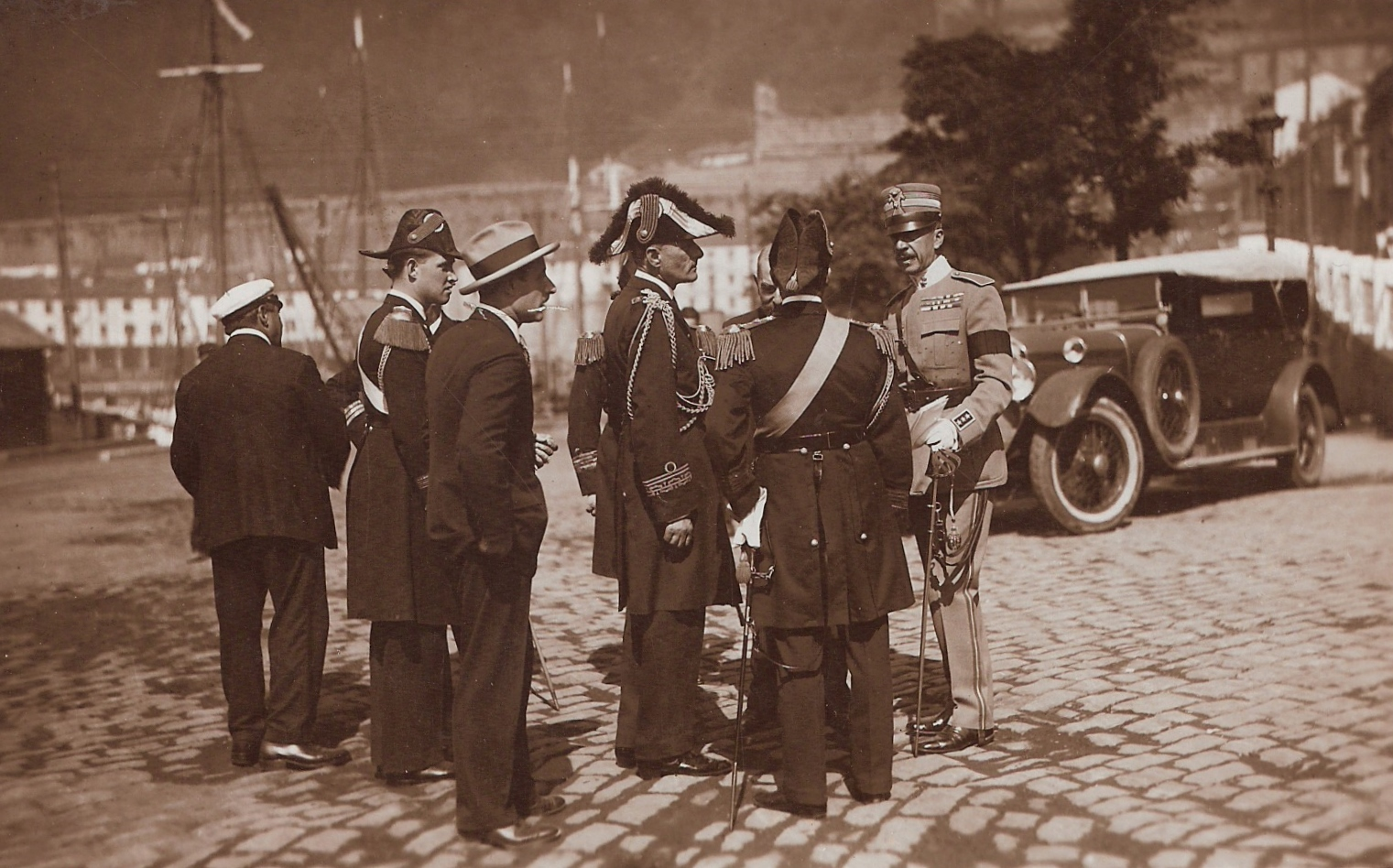 Italian admiral and military attaché Ernesto Burzagli (1873-1944) with other military people of Italy. The original picture, scanned by Emiliano Burzagli, belongs to the Private archive of Burzaghi family, Italy.